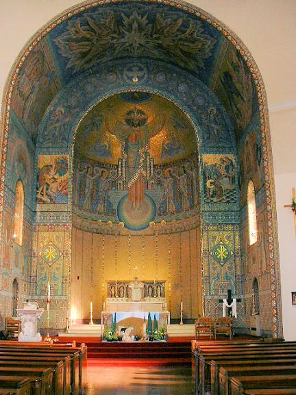 Inside the nave of the Roman Catholic church of St John the Baptist, Rochdale, Greater Manchester, looking towards the apsidal chancel